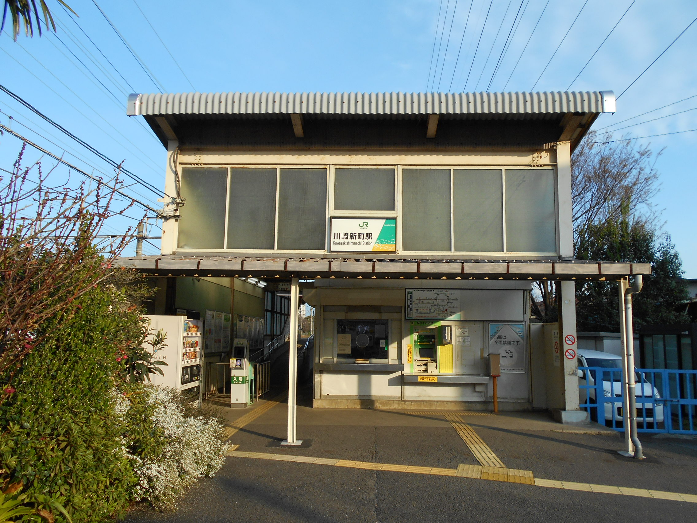 Kawasaki-Shimmachi Station on the Nambu Branch Line in Kanagawa Prefecture, Japan